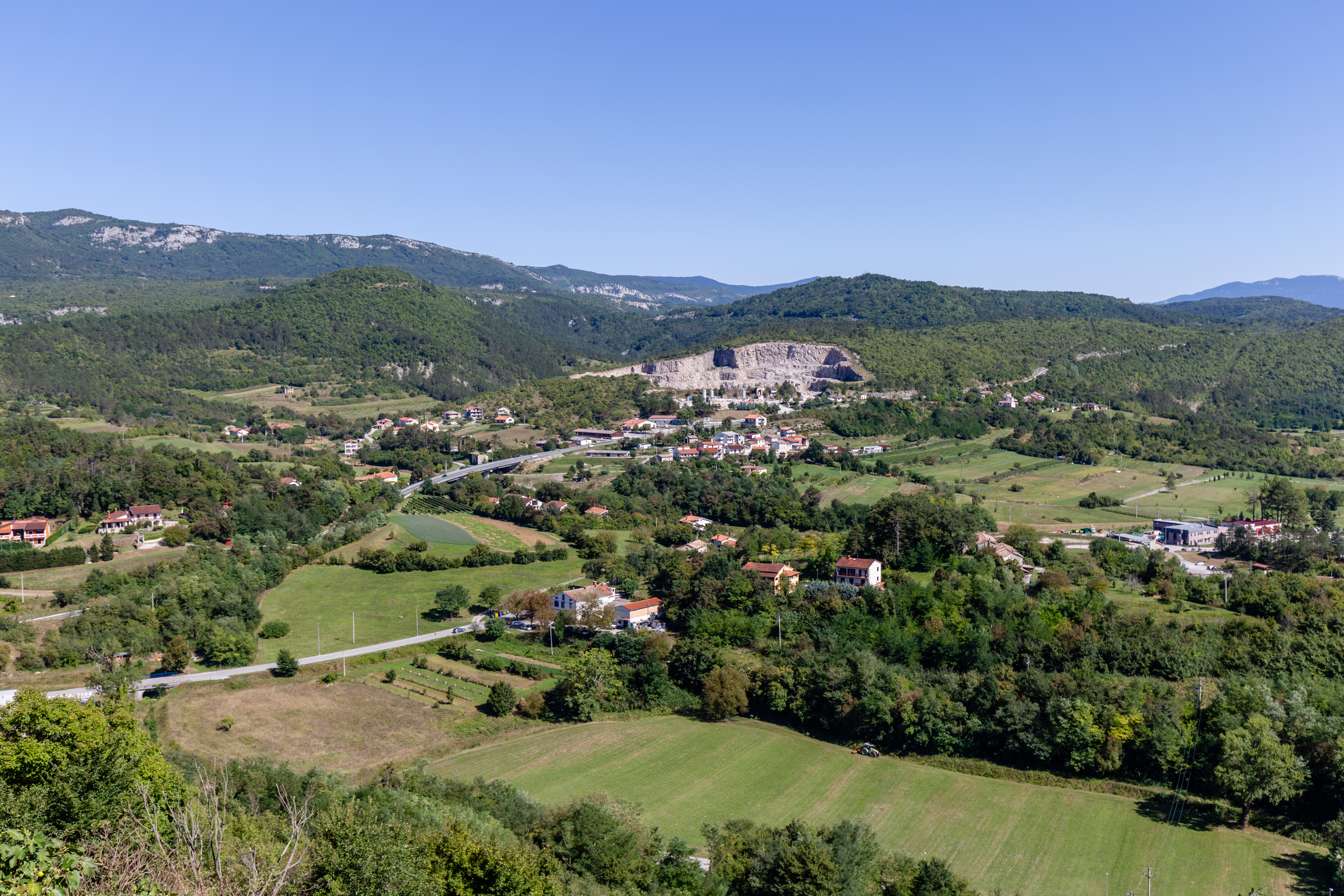 View from Buzet to Sveti Ivan, Istria County, Croatia